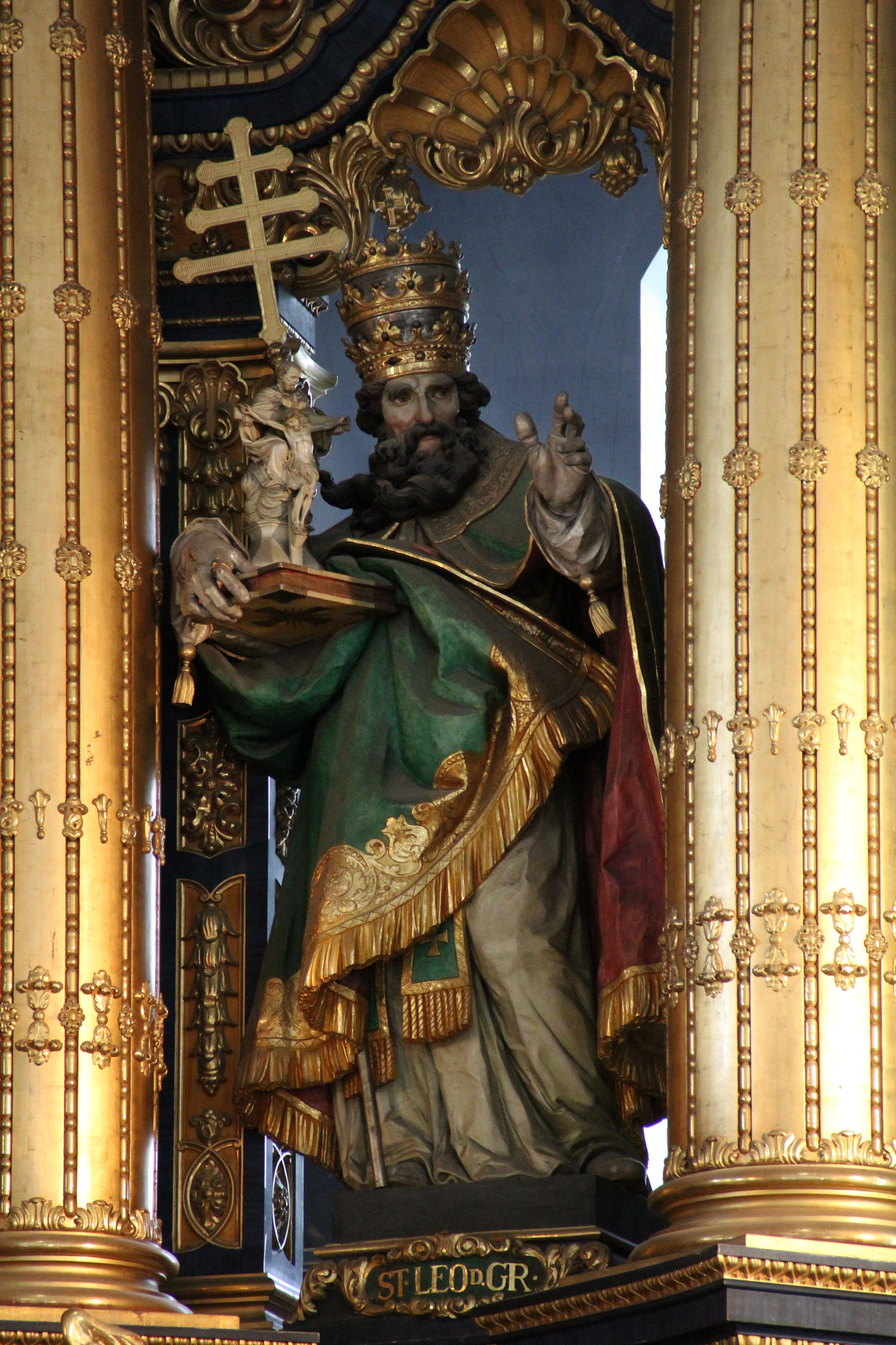 Statue of Saint Leo the Great on Saint Anne Altar Q810109 Native nameBasilika St. AnnaLocationAltötting, Upper Bavaria, GermanyCoordinates48° 13′ 40″ N, 12° 40′ 25″ E Authority control : Q810109 VIAF: 242272582 GND: 4393569-2